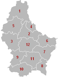 Map of the cantons in the Grand Duchy of Luxembourg.